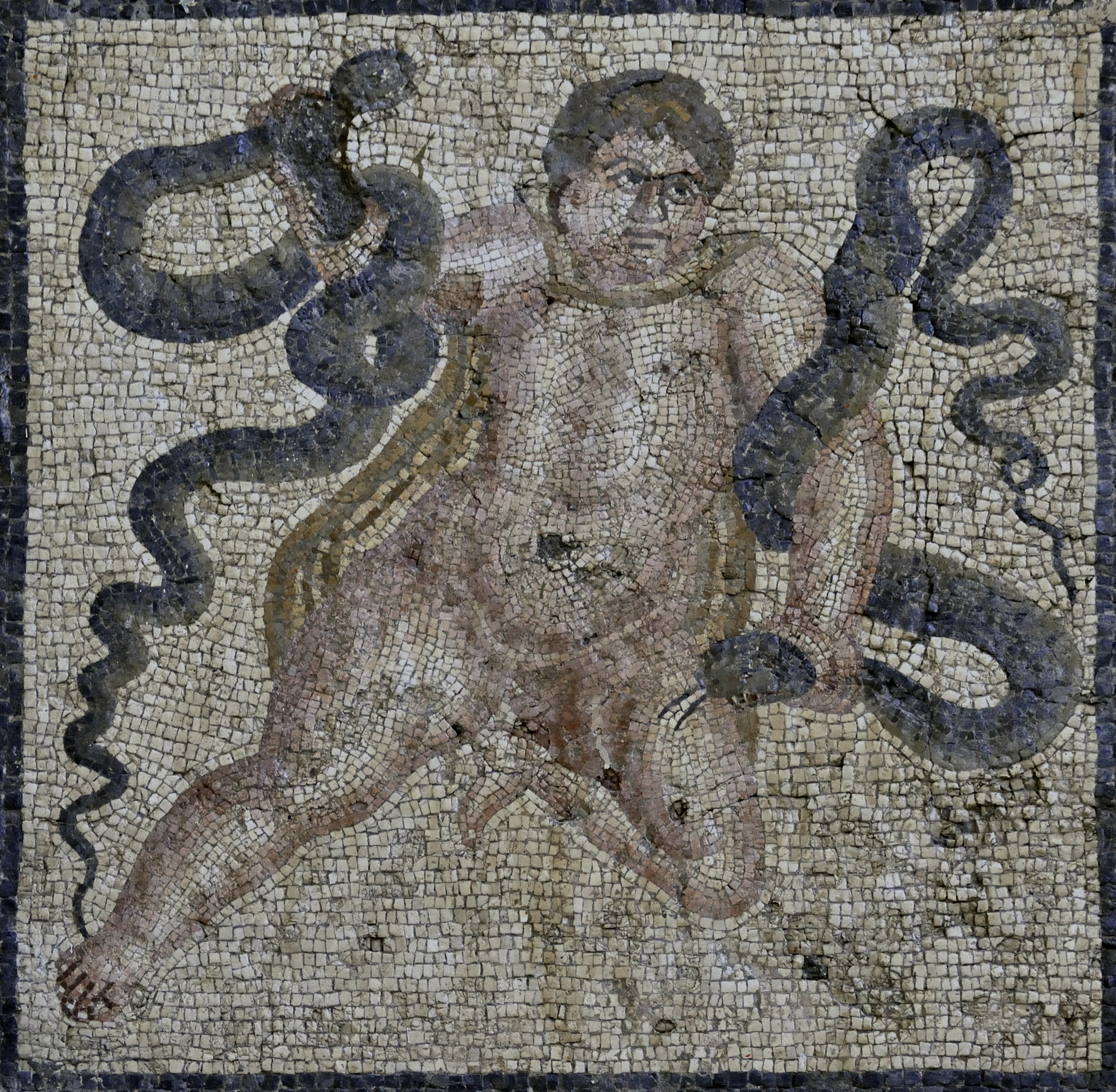 Herakles killed two of Hera's serpents while an infant. Quite an infant, though. The mosaic is from Antakya, second century AD.